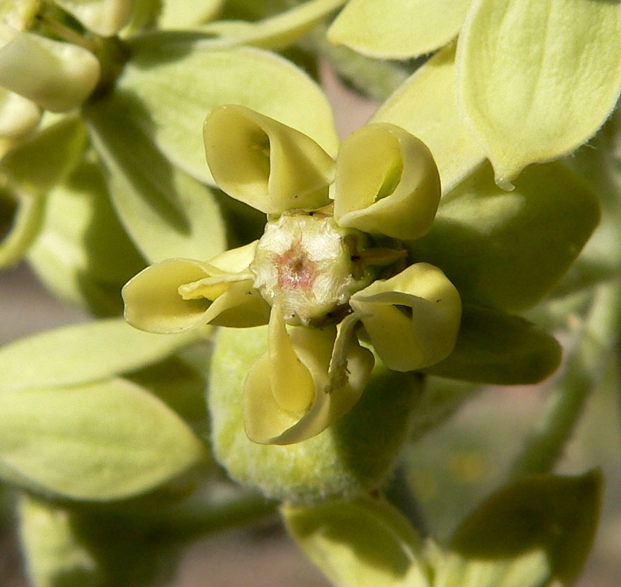 Asclepias erosa in Calico Basin, west of Las Vegas, Nevada